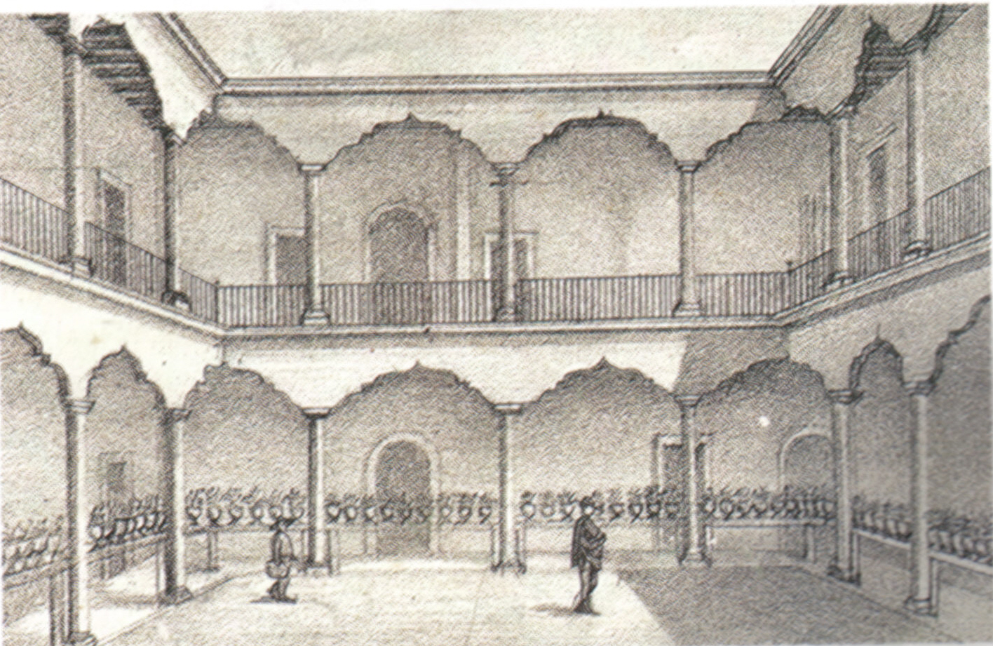 Morelos'House